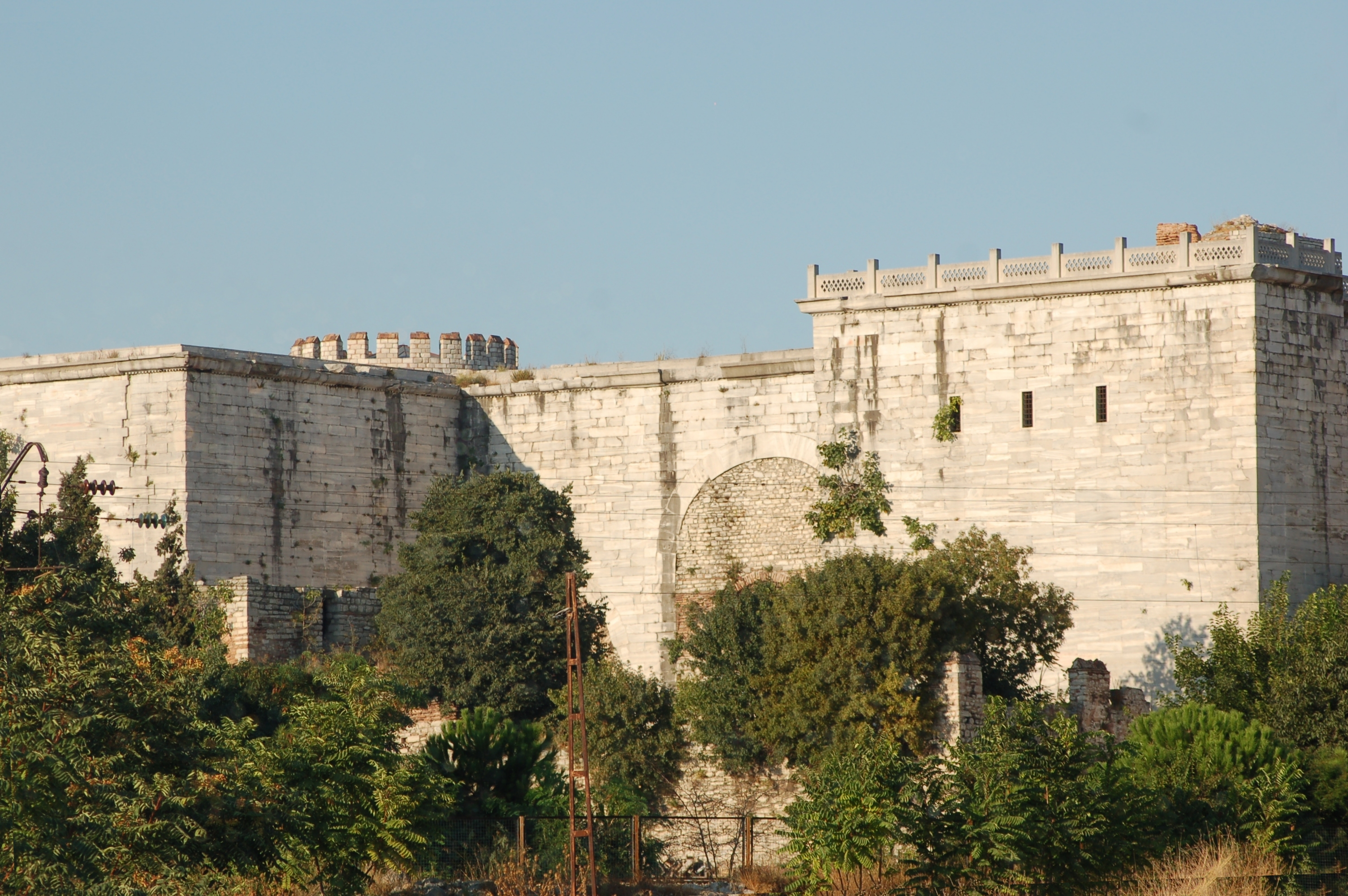 early 21st century photograph of the Golden Gate in the Theodosian walls of Constantinople. Photograph taken from outside the walls from a side angle given the inaccessibility of the outside if the Gate to visitors (front view obscured by forest at the back of a graveyard).